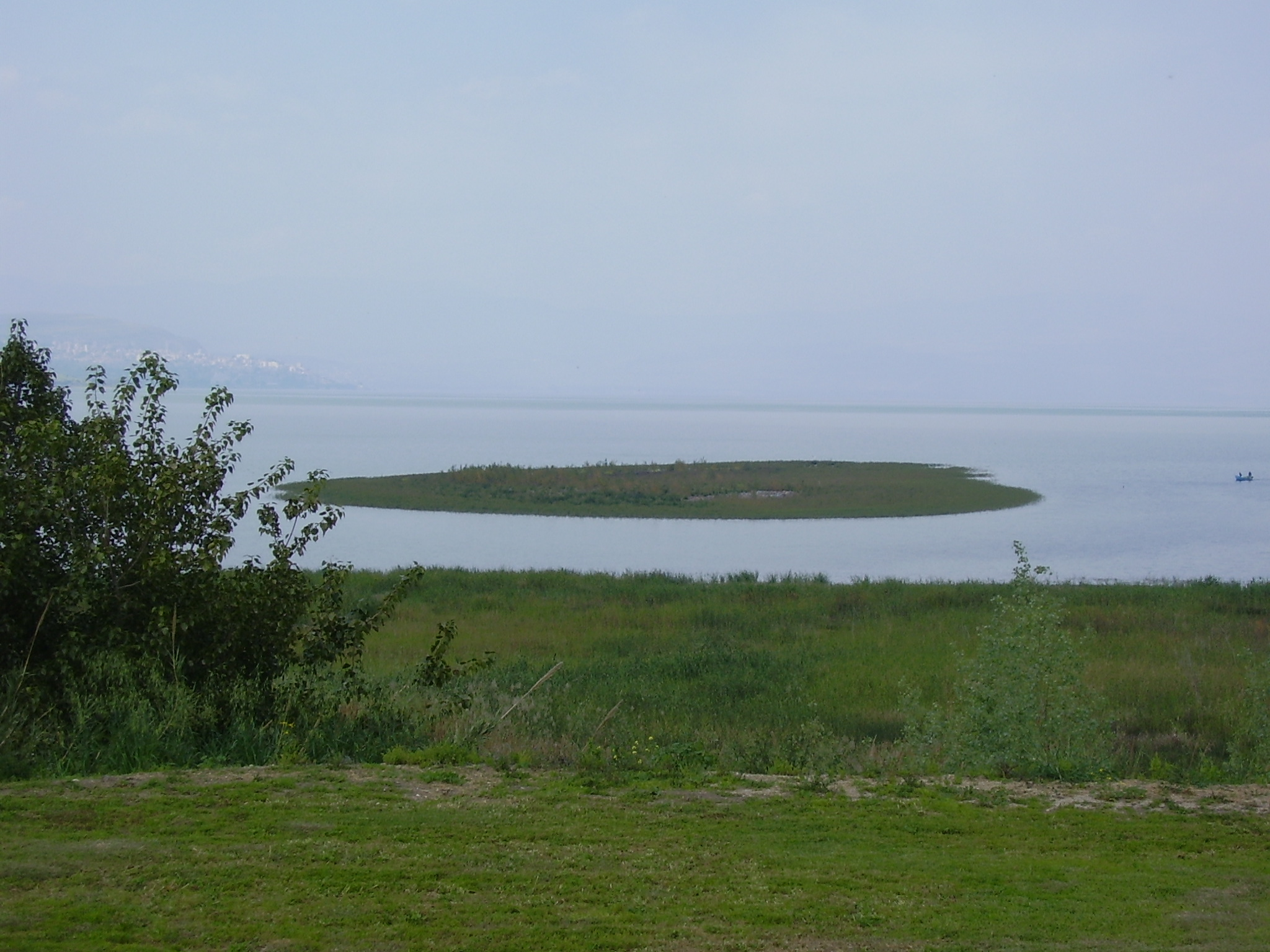 Kibbutz Ma'agan